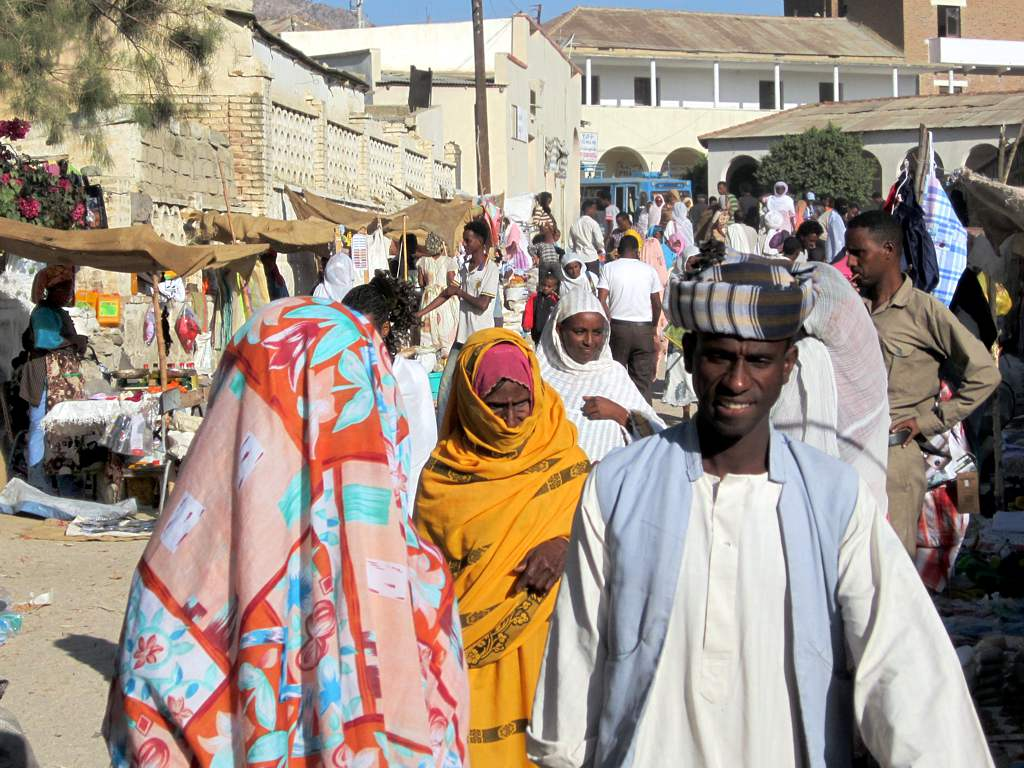 A colorful throng on the street leading to the riverbed market in downtown Keren, Eritrea.